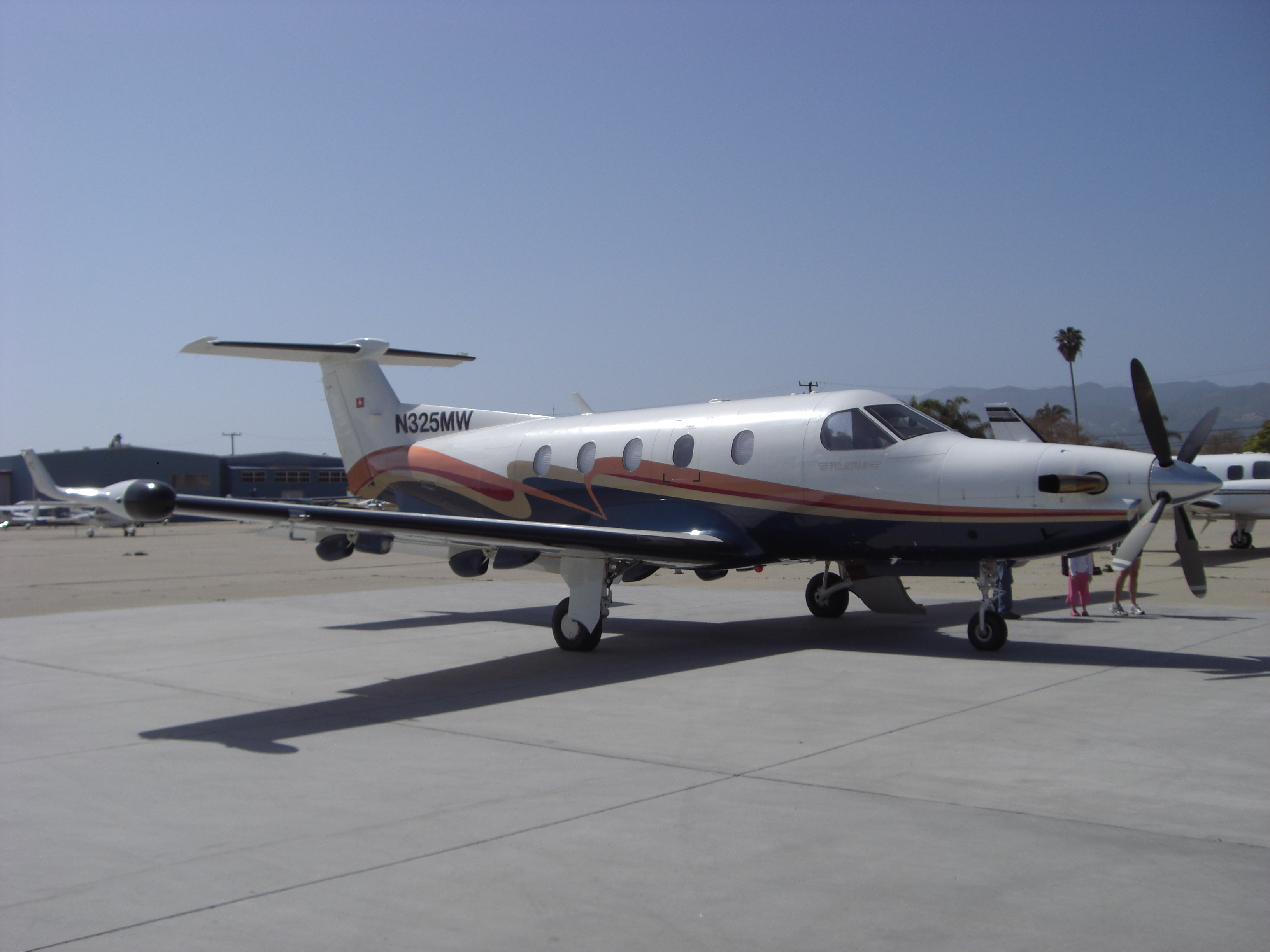 Pilatus PC-12/45 (N325MW) Santa Barbara, CA (SBA)